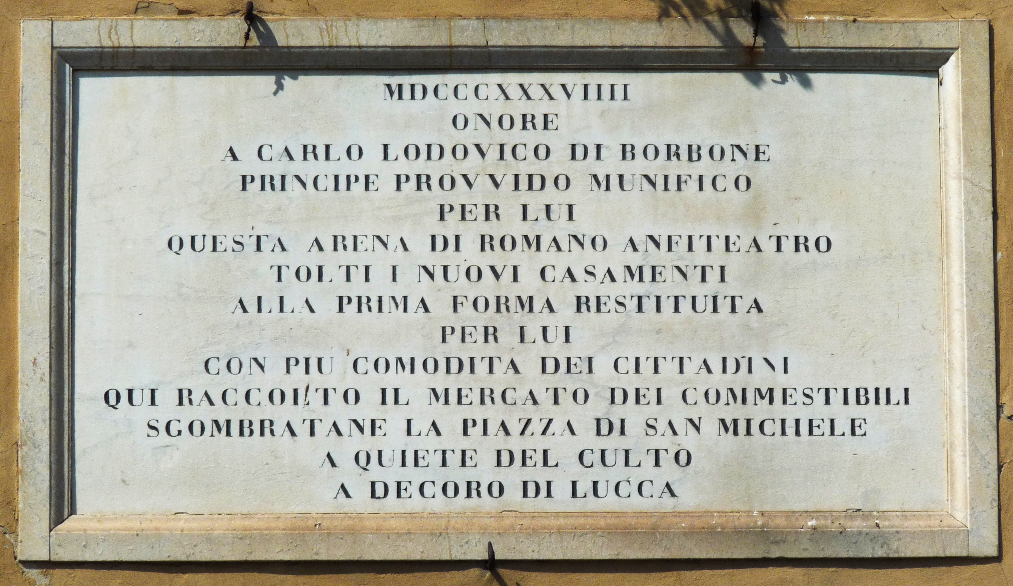 Inscription on "Piazza dell'Anfiteatro", Lucca, Tuscany, Italy